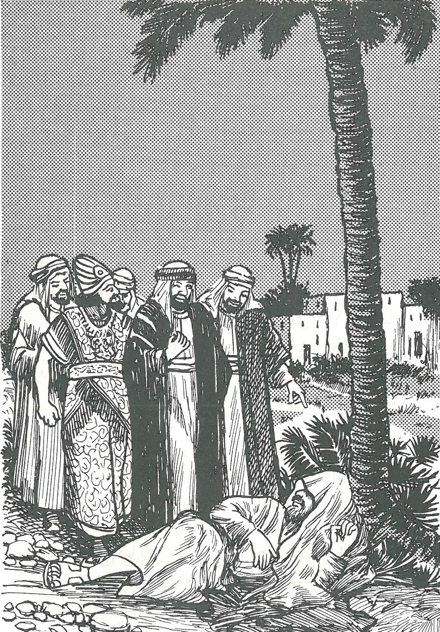 Hormuzan being brought before caliph Umar bin Al Khattab, who is found sleeping soundly in the shadow of a palm tree, after he had ruled the land justly and wisely.